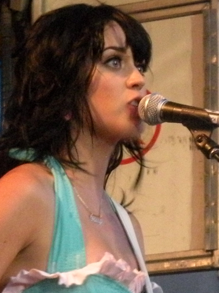 Singer-songwriter Katy Perry during Warped Tour 2008 in Uniondale, New York. Taken with a Nikon Coolpix P80.